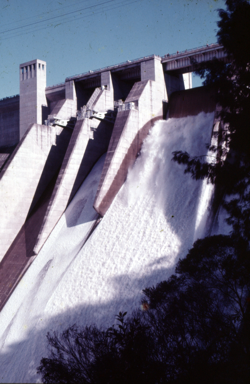 Warragamba Dam in 1974 had enough water in the catchment areas to keep the spillway open for long periods of time.